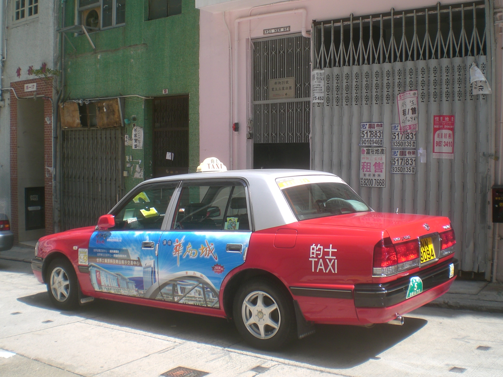 香港島zh:上環 新街 香港的士 華南城